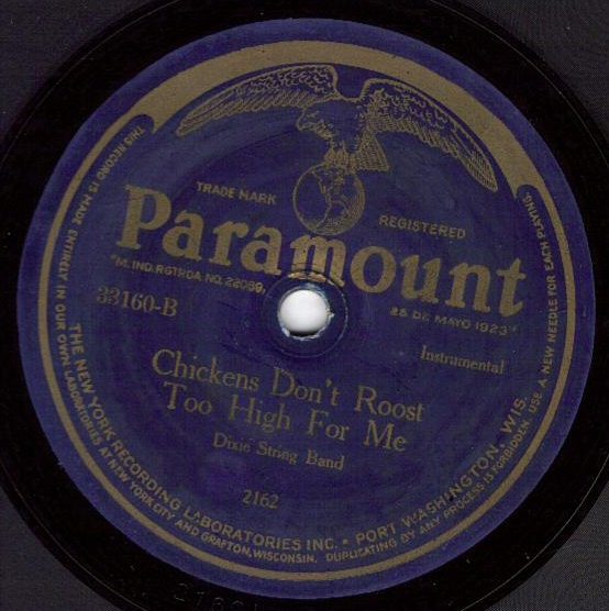 Chicken Don't Roost Too High For Me by Arthur Tanner's Dixie String Band, Paramount 1925.